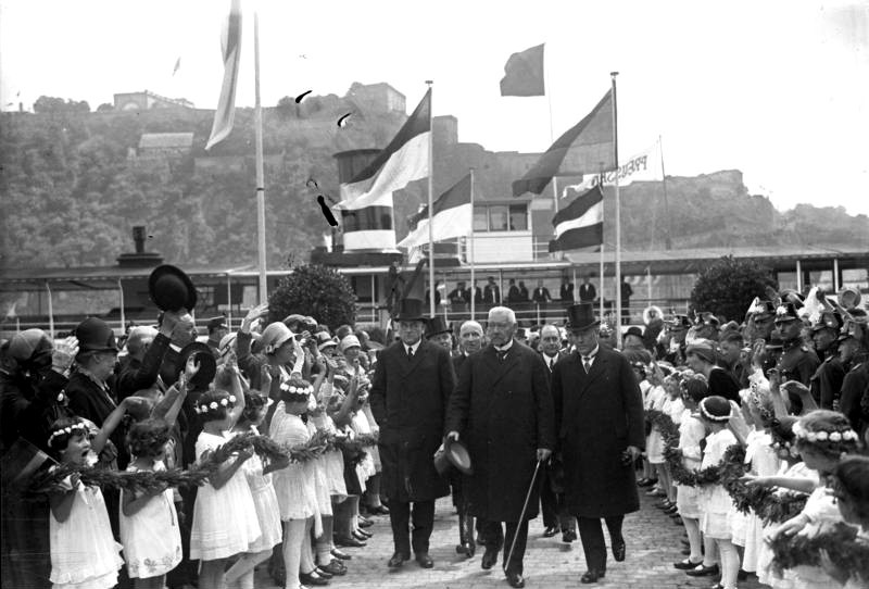 President of Germany Paul von Hindenburg (middle) and minister-president of Prussia Otto Braun arriving for the celebration of the end of the allied occupation of the Rhineland in Koblenz on July 22nd, 1930. After a firework display at the fortress Ehrenbreitstein a narrow temporary bridge, overloaded by the crowd, fell in. 38 people died.